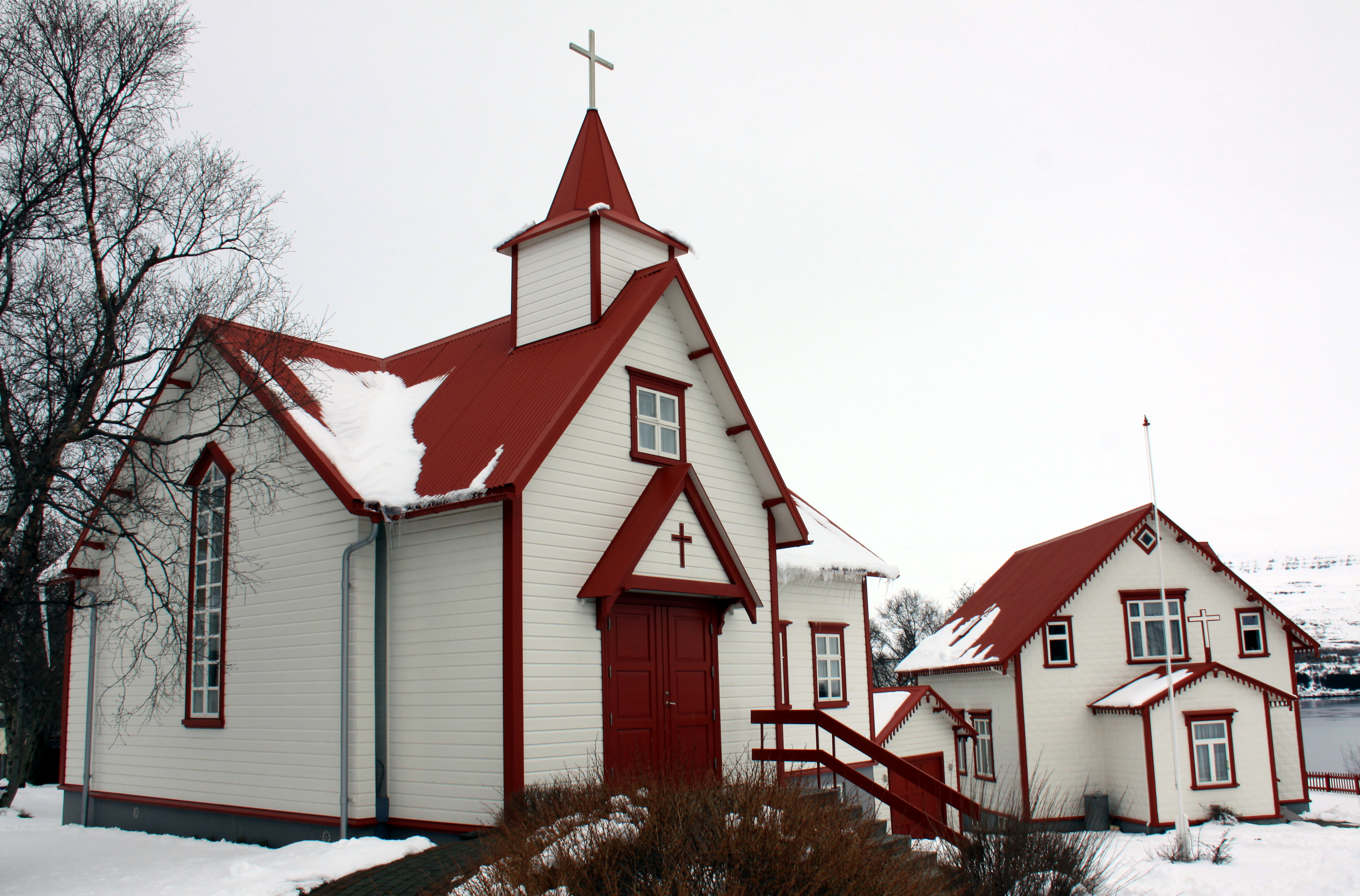 Catholic Church St. Peter (Péturskirkjan) in Akureyri